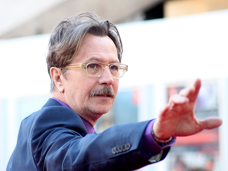 Gary Oldman at the London premiere of Tinker Tailor Soldier Spy. BFI South Bank, Tuesday 13th September 2011